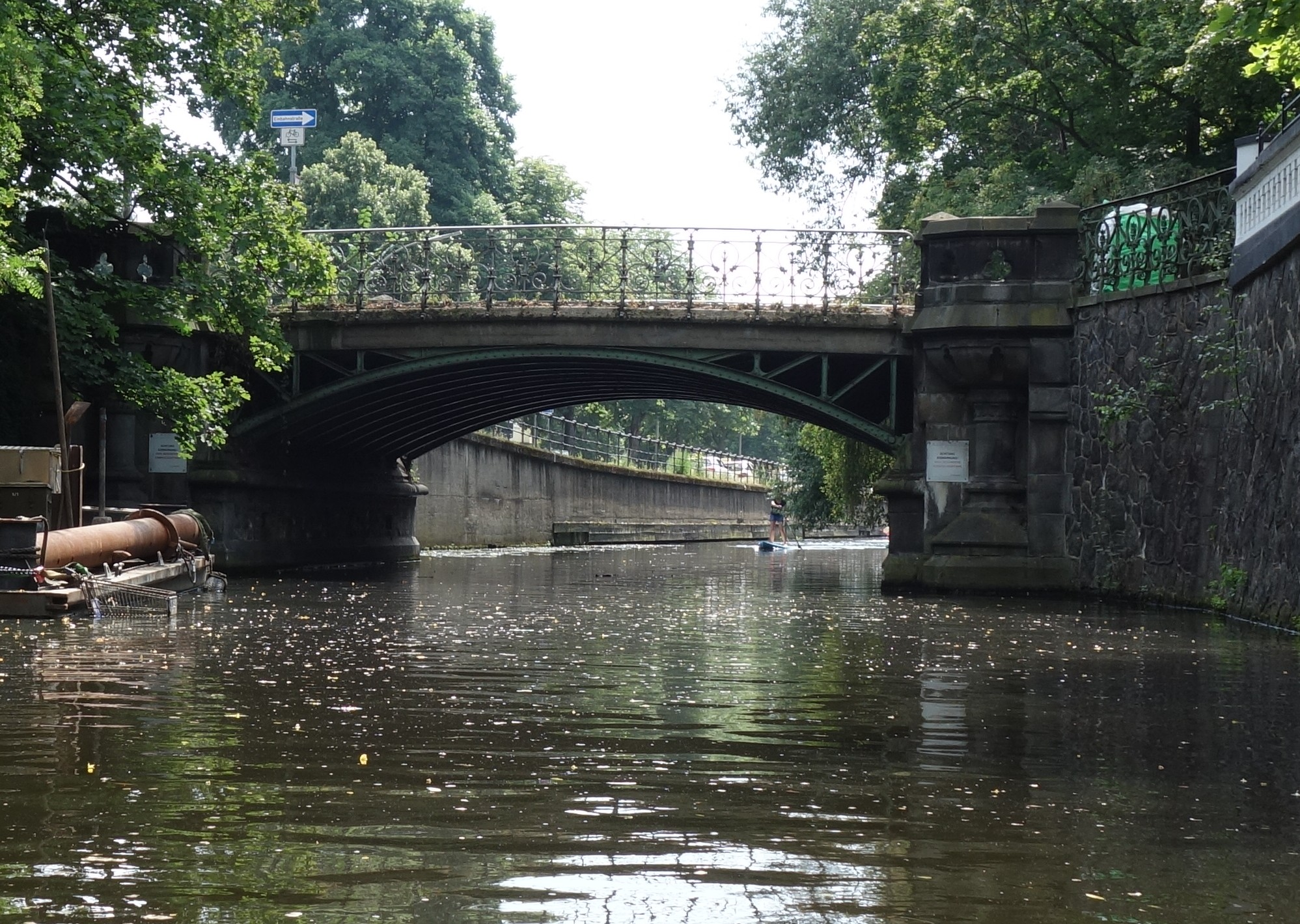 Bridge over the Hofwegkanal ("Channel at the Hofweg") in Hamburg, Germany